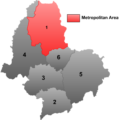 Map of Heihe Prefecture — in Heilongjiang Province.